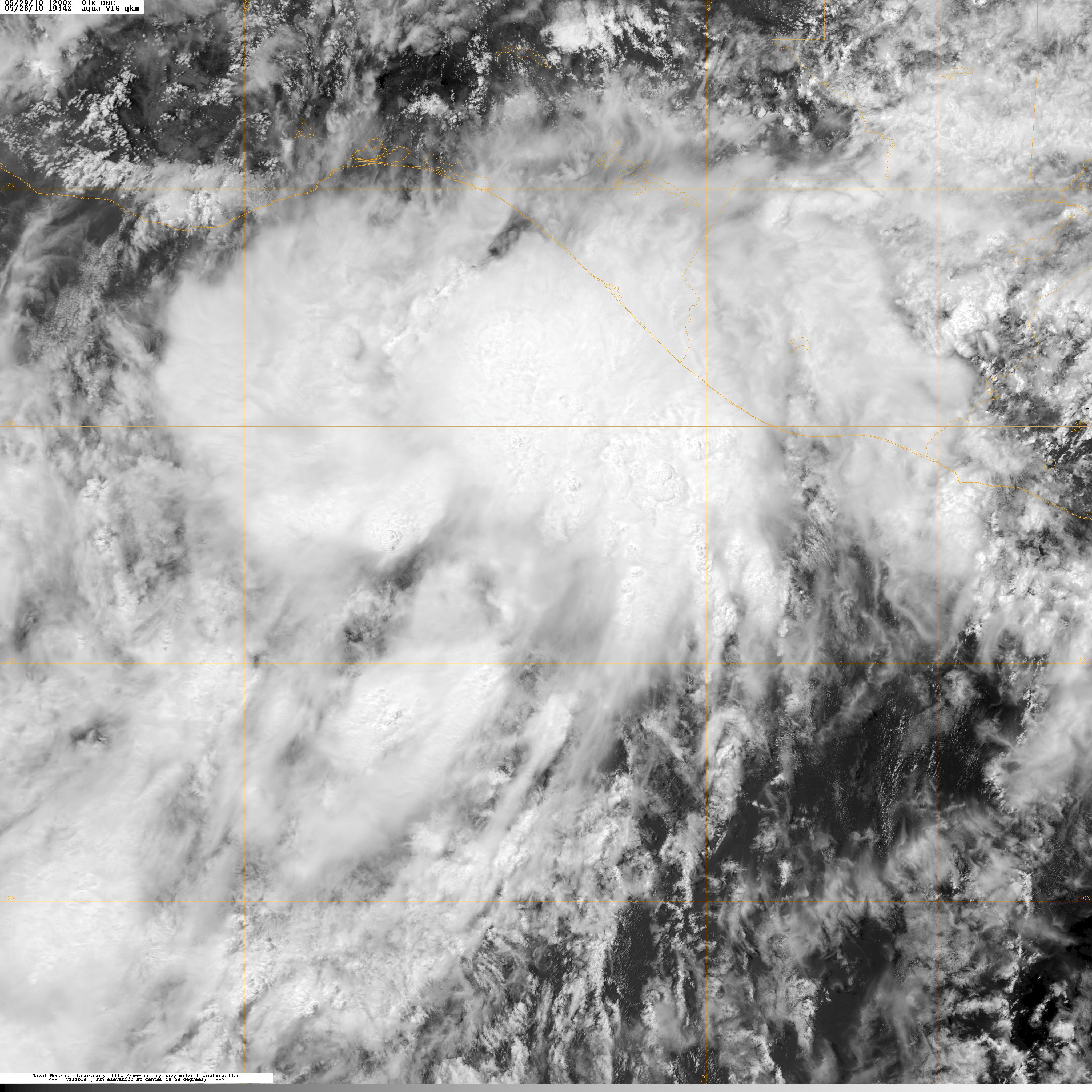 Tropical Storm Agatha of the 2010 Pacific hurricane season on May 29, 2010 soon after being upgraded to a tropical storm.